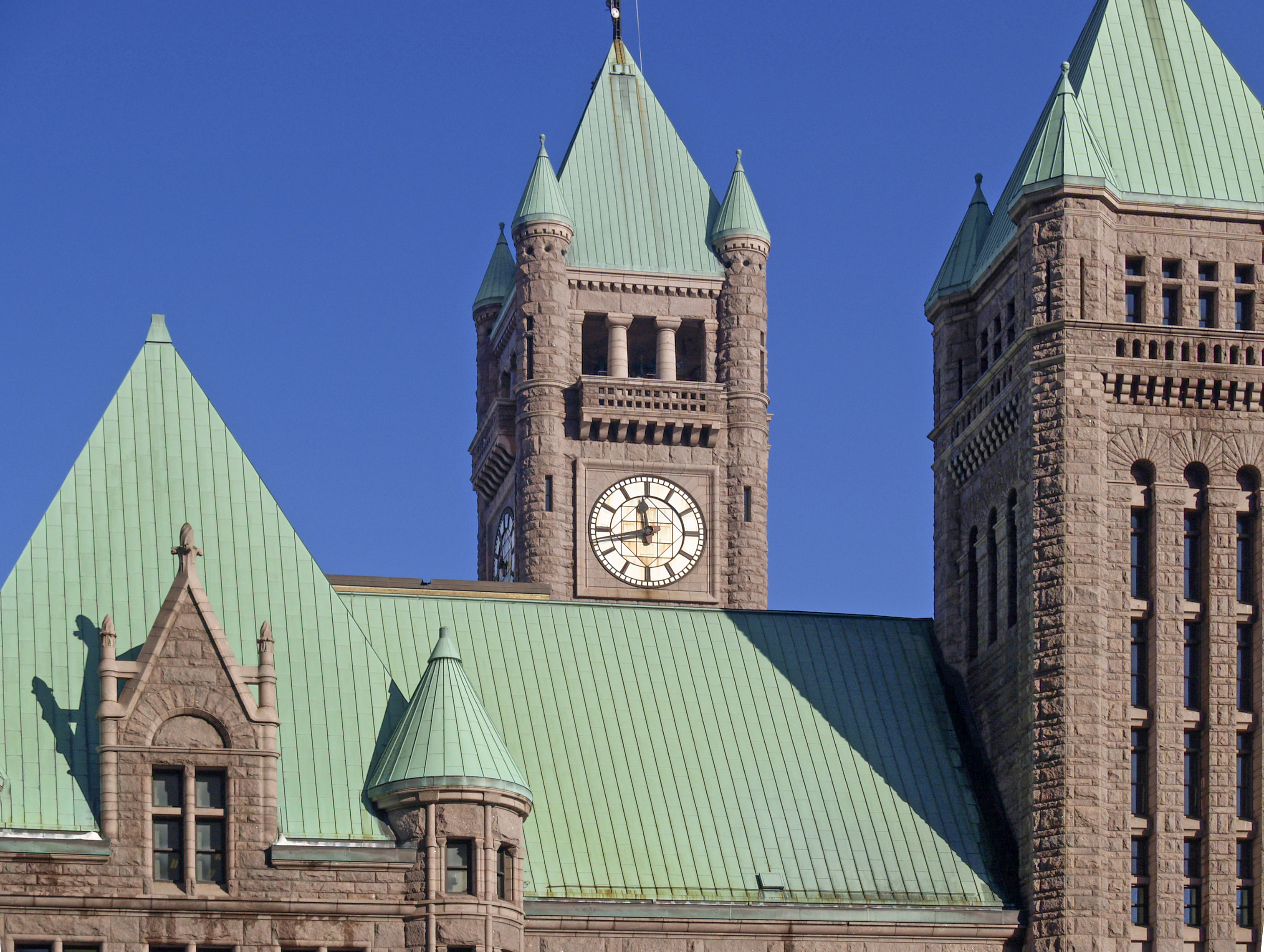 City hall of Minneapolis, Minnesota (USA).